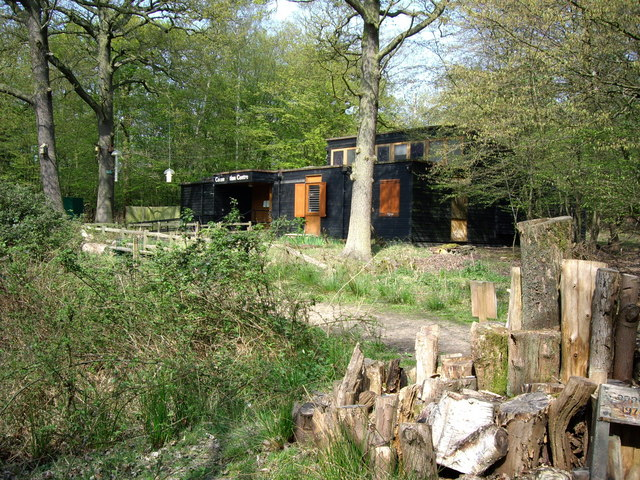 Parndon Wood Conservation Centre Parndon Wood nature reserve has a small conservation centre, and a marked walk through the woods.